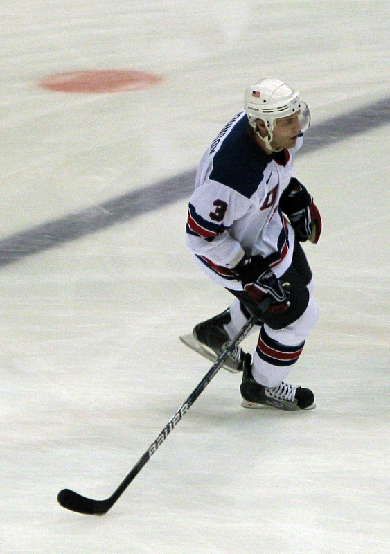 United States defenseman Jack Johnson in action against Canada during the 2010 Winter Olympics.